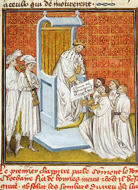 Clotaire II in treaty with lombards, Chlotar II. in Verhandlung mit den Lombarden.